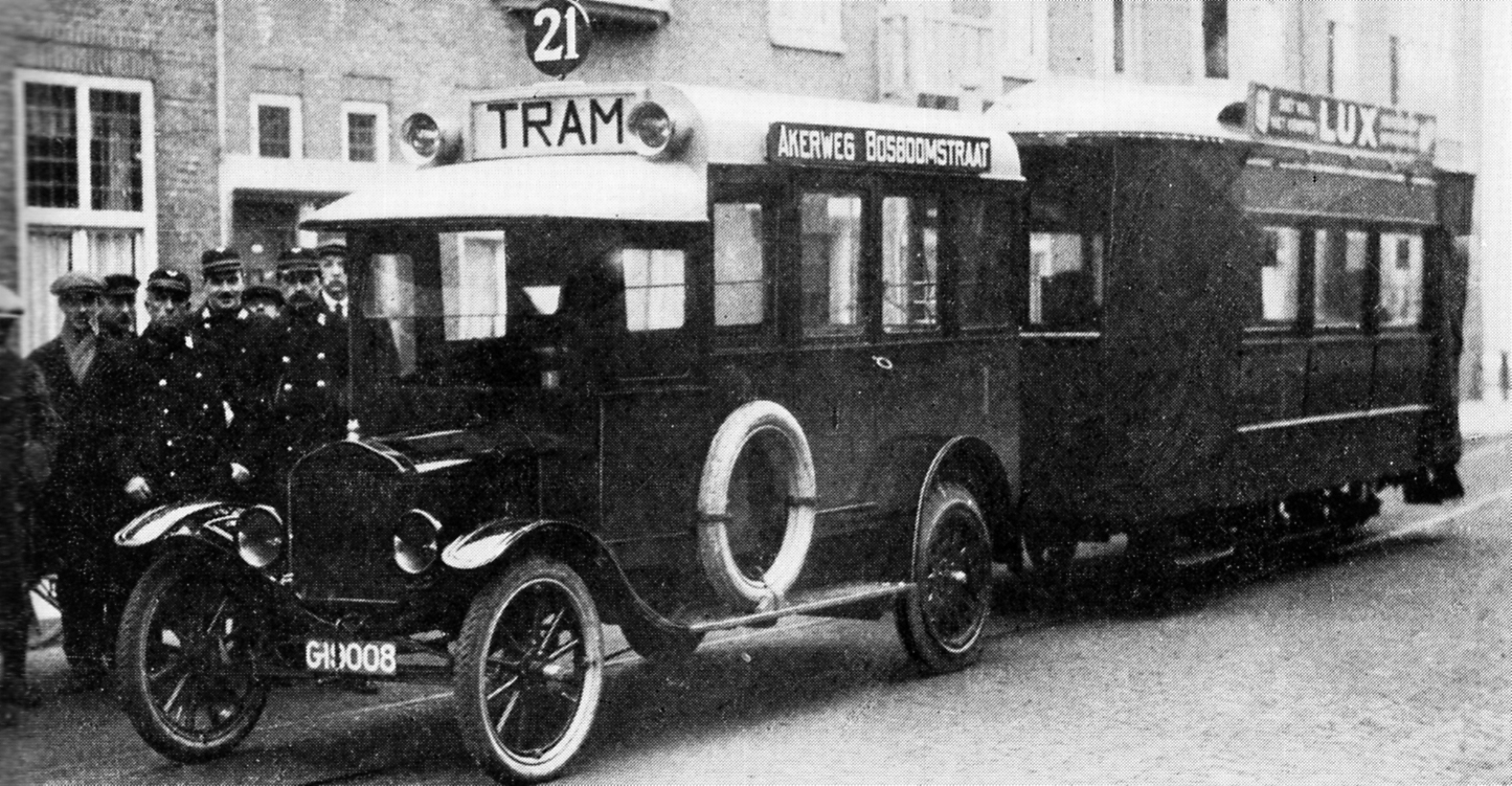 In 1922, the horse tram to Sloten (Amsterdam) was updated: it was no longer pulled by horses, but by buses. To avoid misunderstanding, each bus carried a large sign reading "TRAM". This bus-pulled tramway lasted for four years, after which the rail tracks were removed and the line was replaced by an ordinary bus. This photo was taken on 21 February 1922 in the Bosboomstraat, currently Andreas Schelfhoutstraat